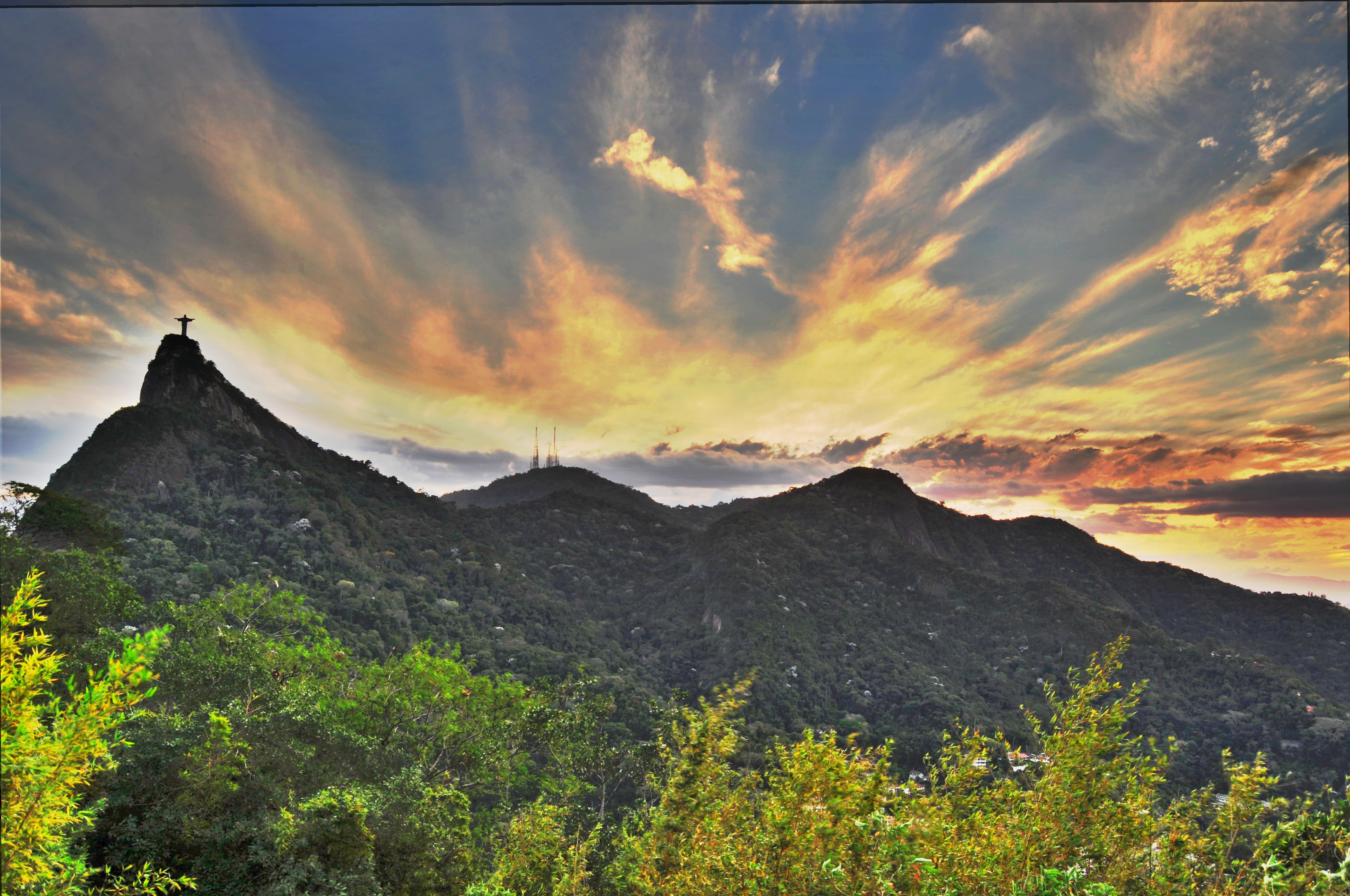 Cristo, Mirante Dona Marta - Rio de Janeiro